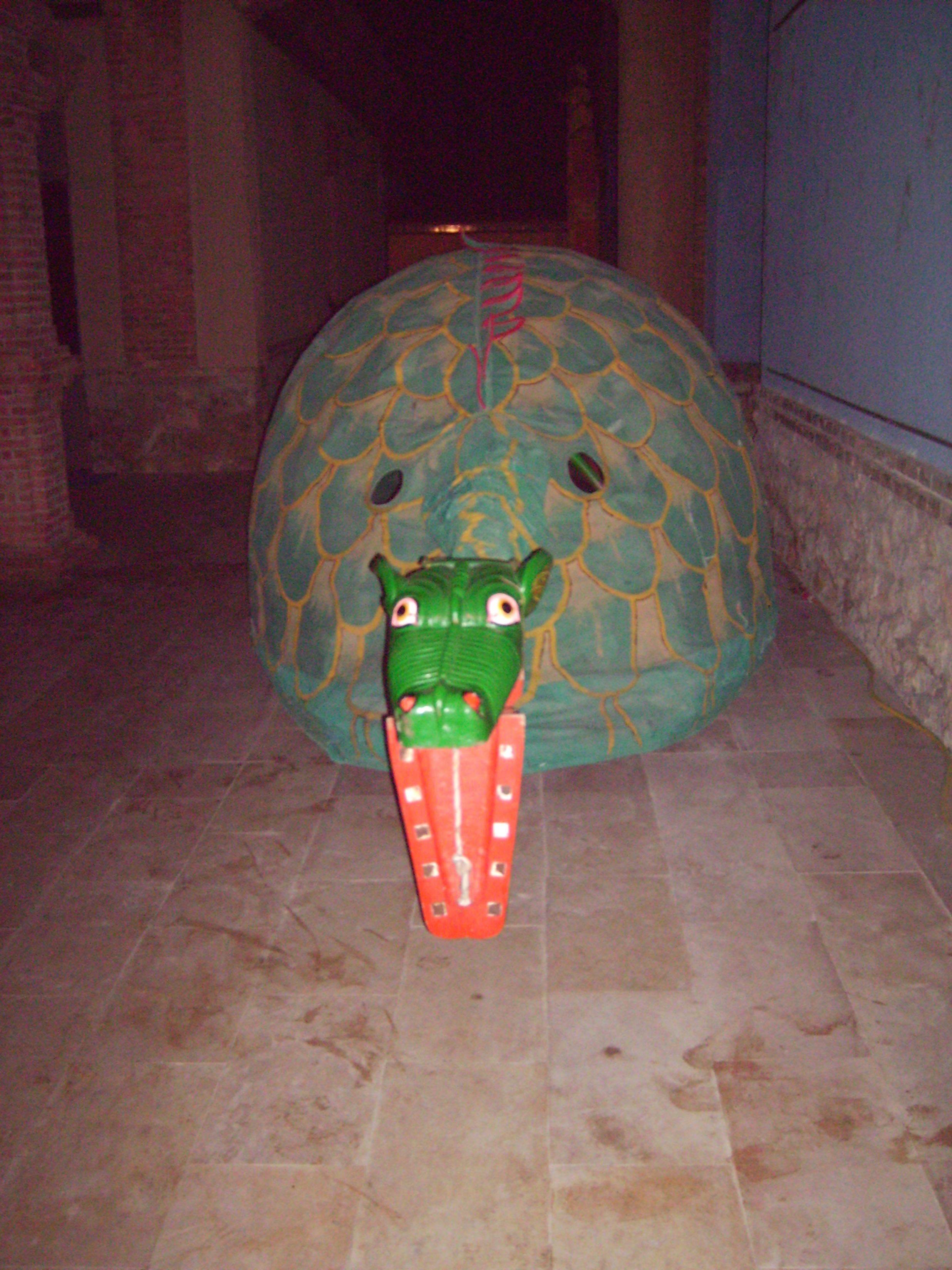 Cucafera de Tortosa